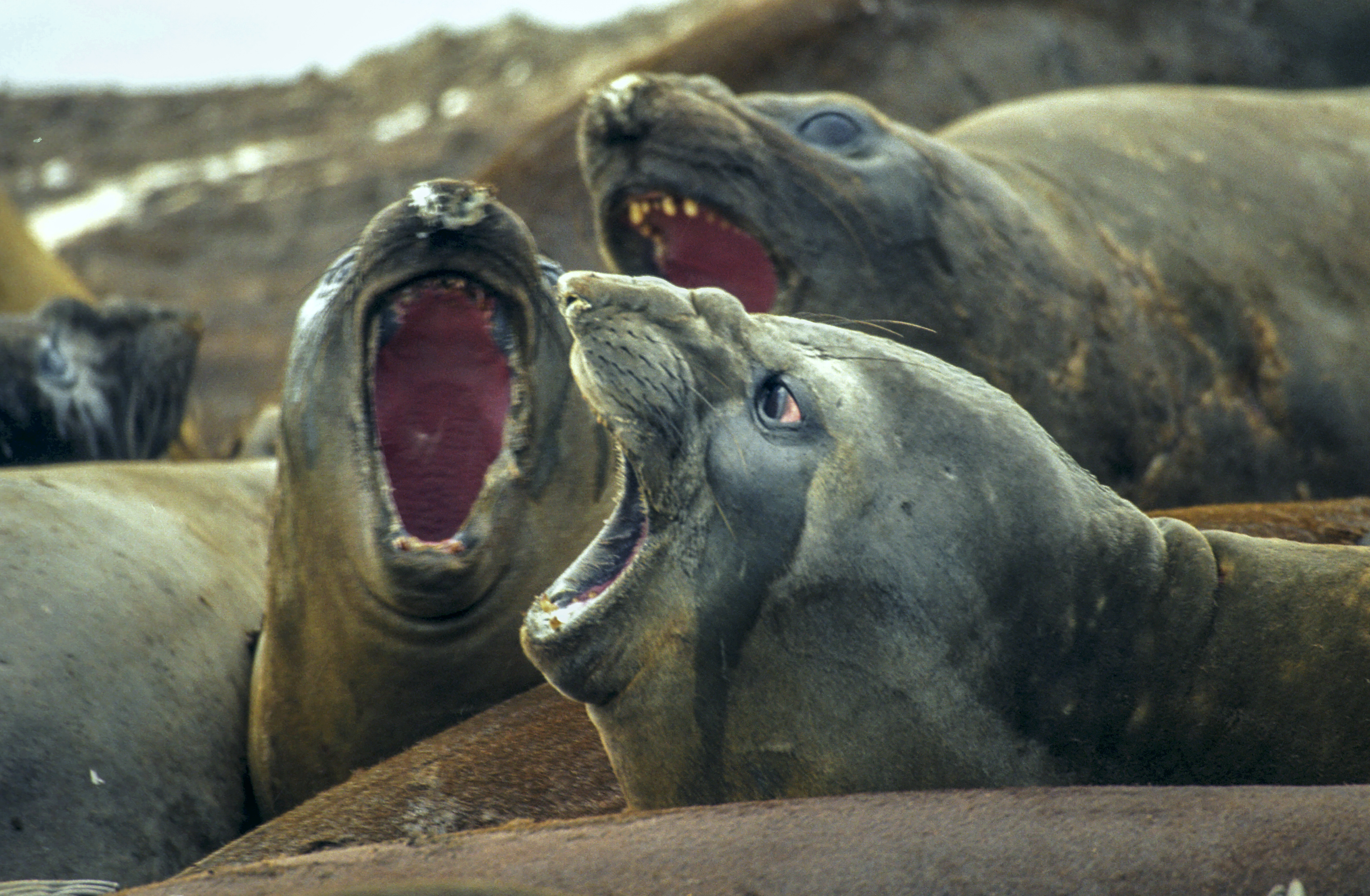 Antarctica, Elephant seal